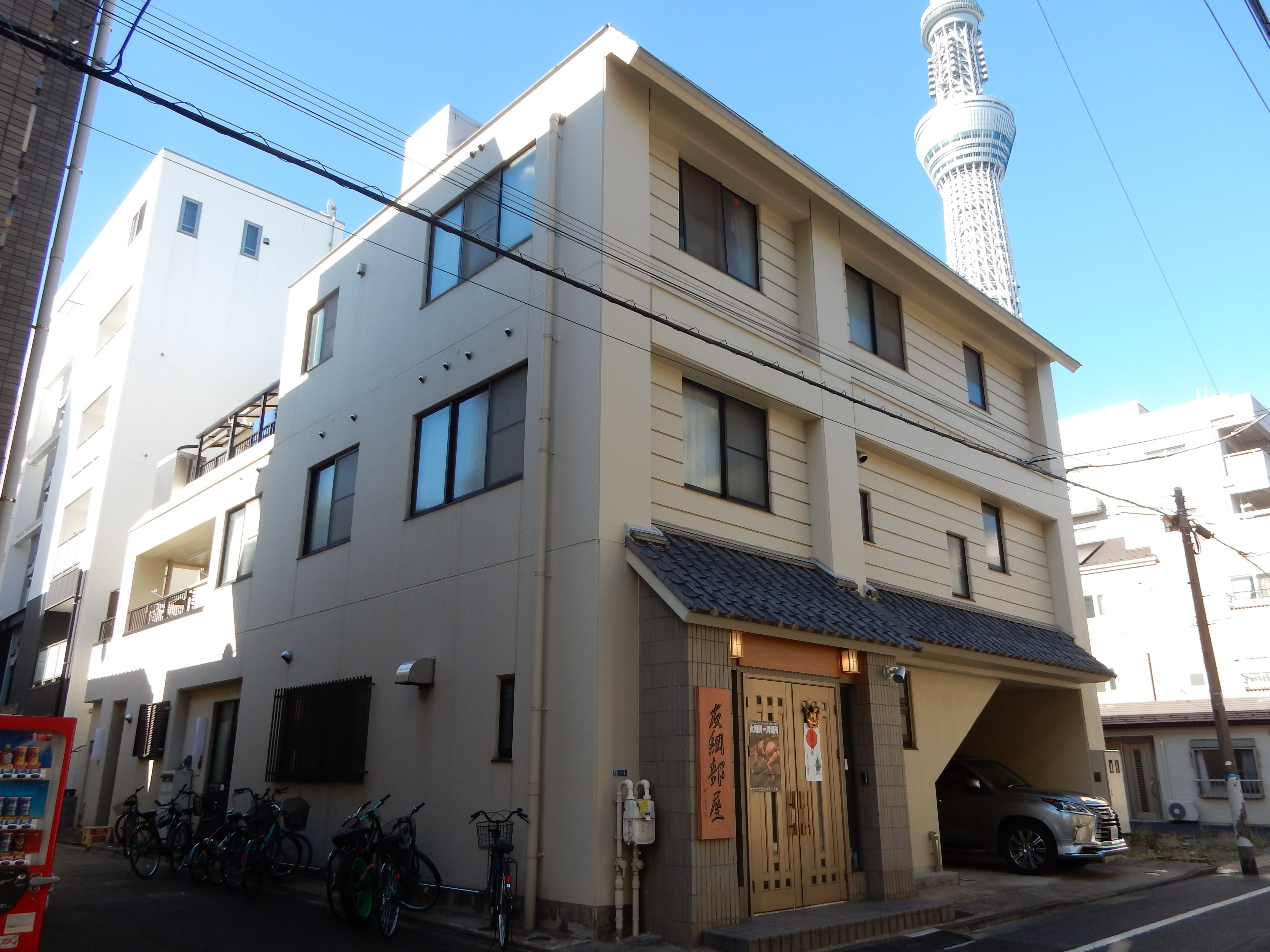 Tomozuna stable, located at 3-1-9 Narihira, Sumida, Tokyo, Japan